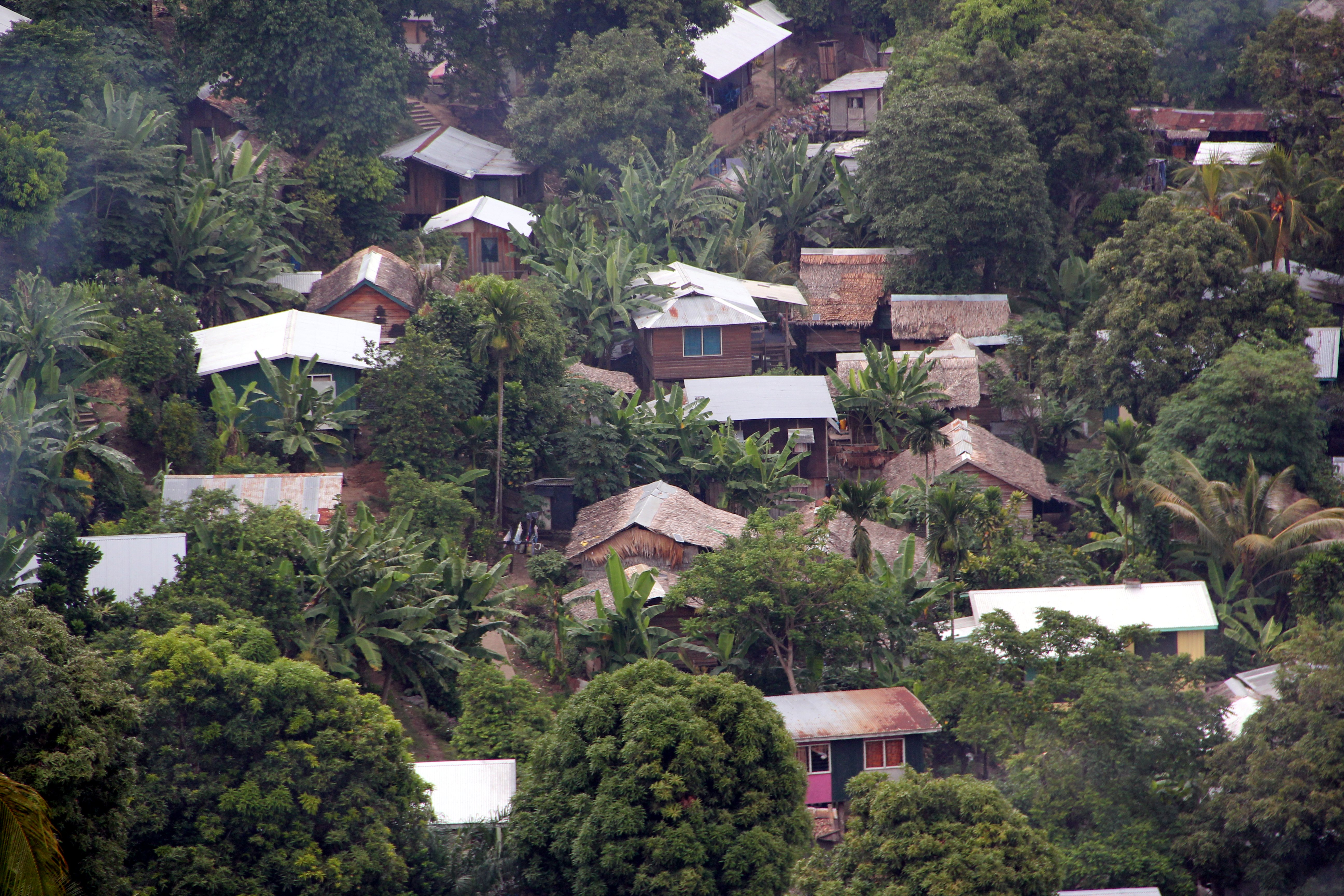 Seen from a hilltop